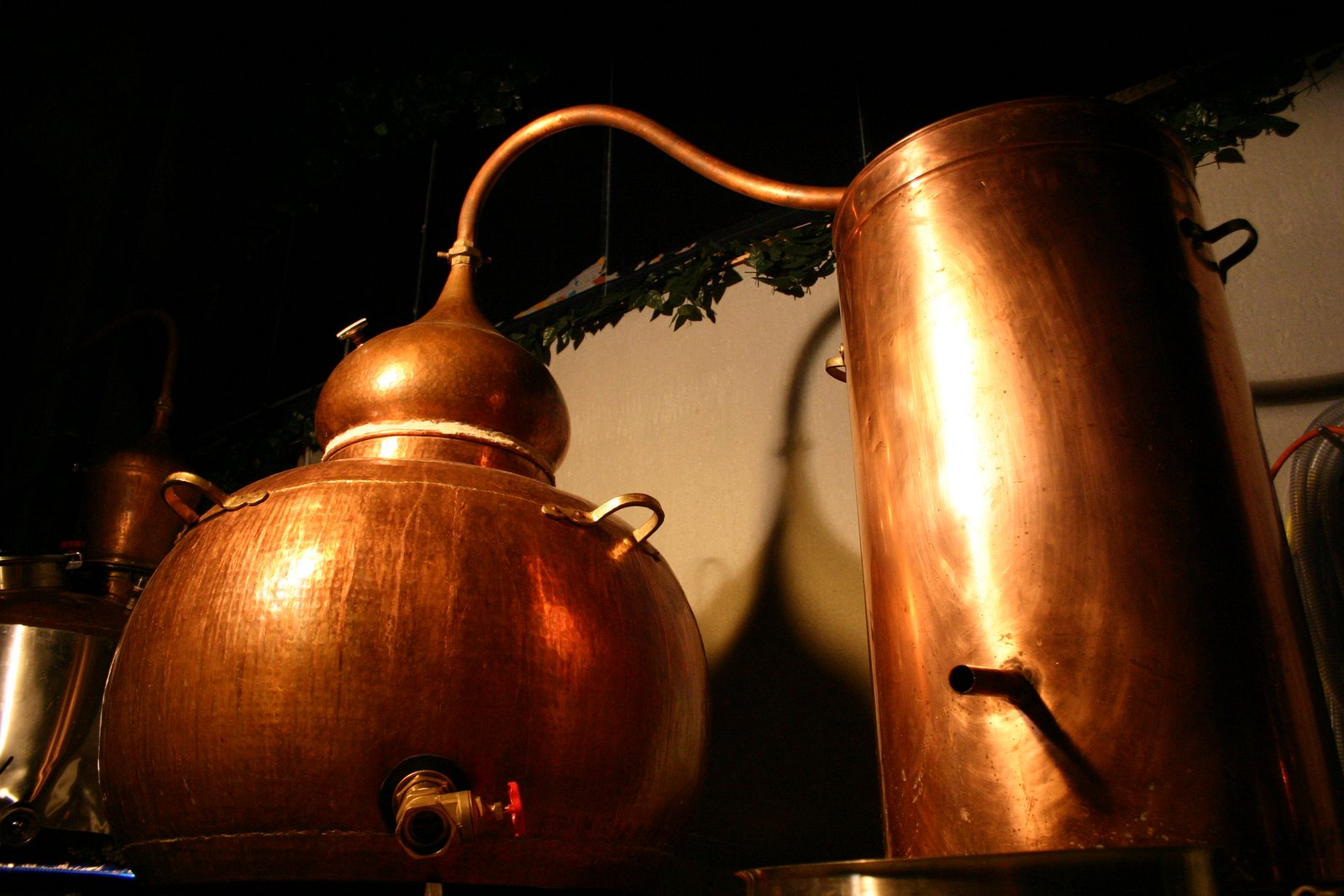 Esmeralda Distillery, Alembic still, Copper Still